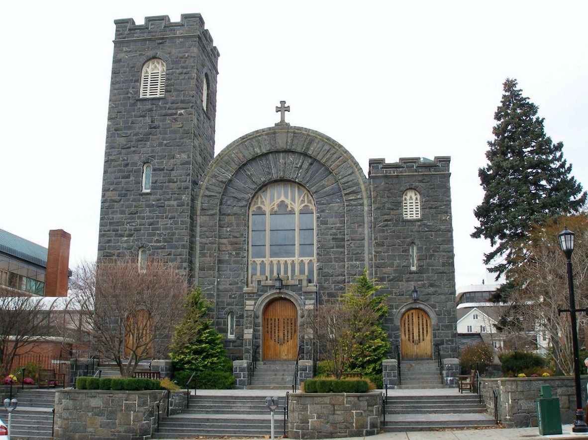 St. Mary's Catholic Church (Greenwich, Conn.)